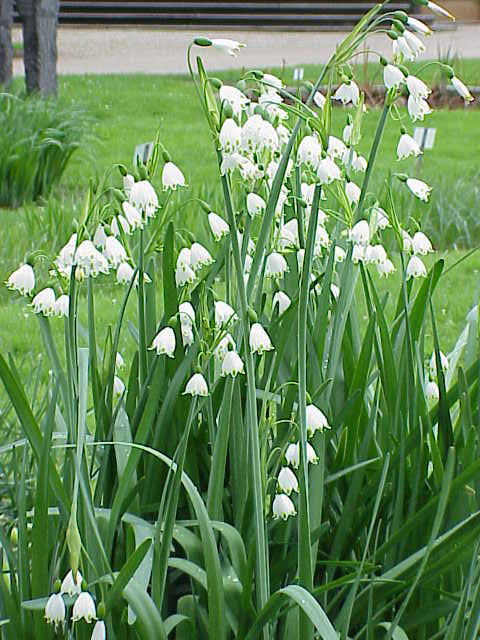 Species: Leucojum aestivum Family: Amaryllidaceae Image No. 6